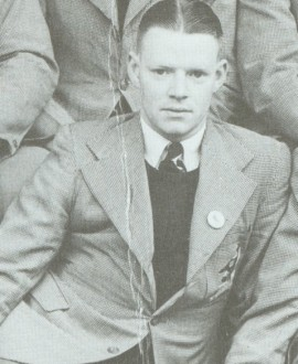 Photo of Les Hill from 1939-1940